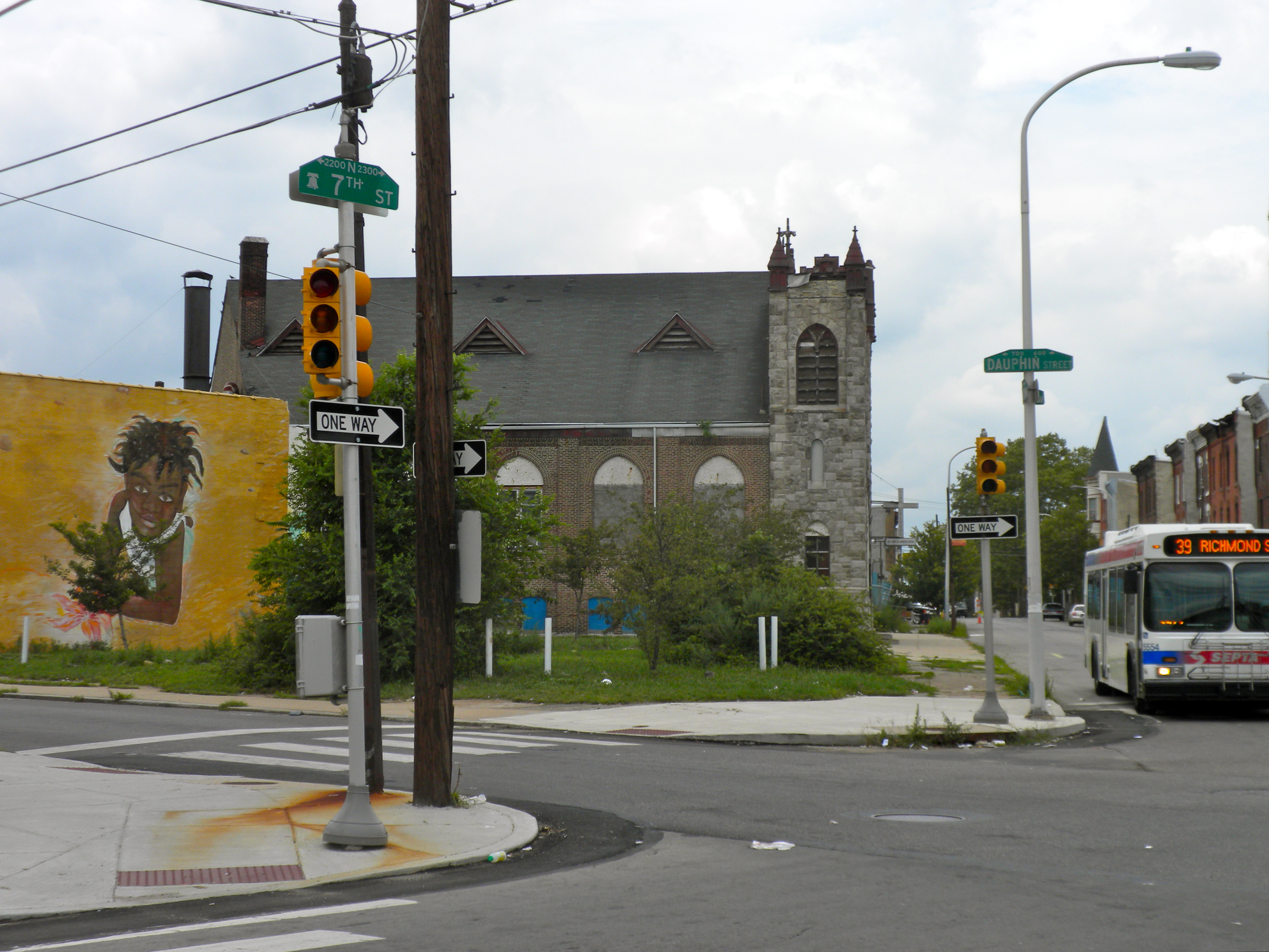 Site of Northern National Bank on the NRHP since June 27, 1985. At 2300 Germantown Ave. (6 corners of Dauphin, 7th, and Germantown Rd.) Obviously torn down. Site was the green bushy area straight ahead and probably included the mural wall to the left In Hartranft neighborhood of North Philly. Note that all 6 corners are now grass covered.